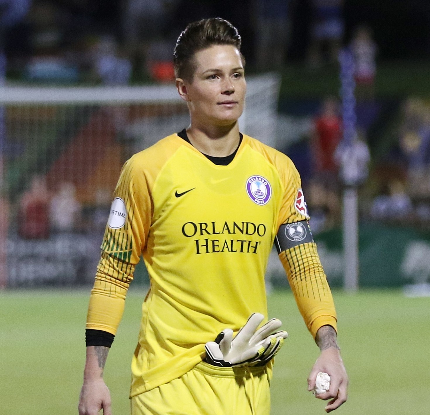 Washington Spirit vs Orlando Pride, 23 June 2018, Maryland SoccerPlex, Boyds, MD